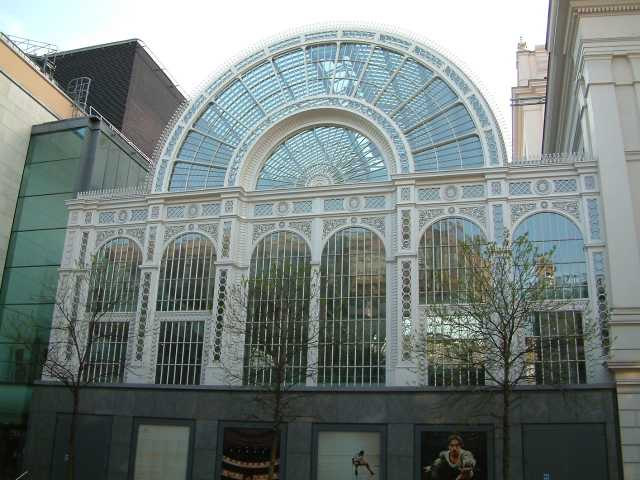 Floral Hall, Royal Opera House, Covent Garden, London, England